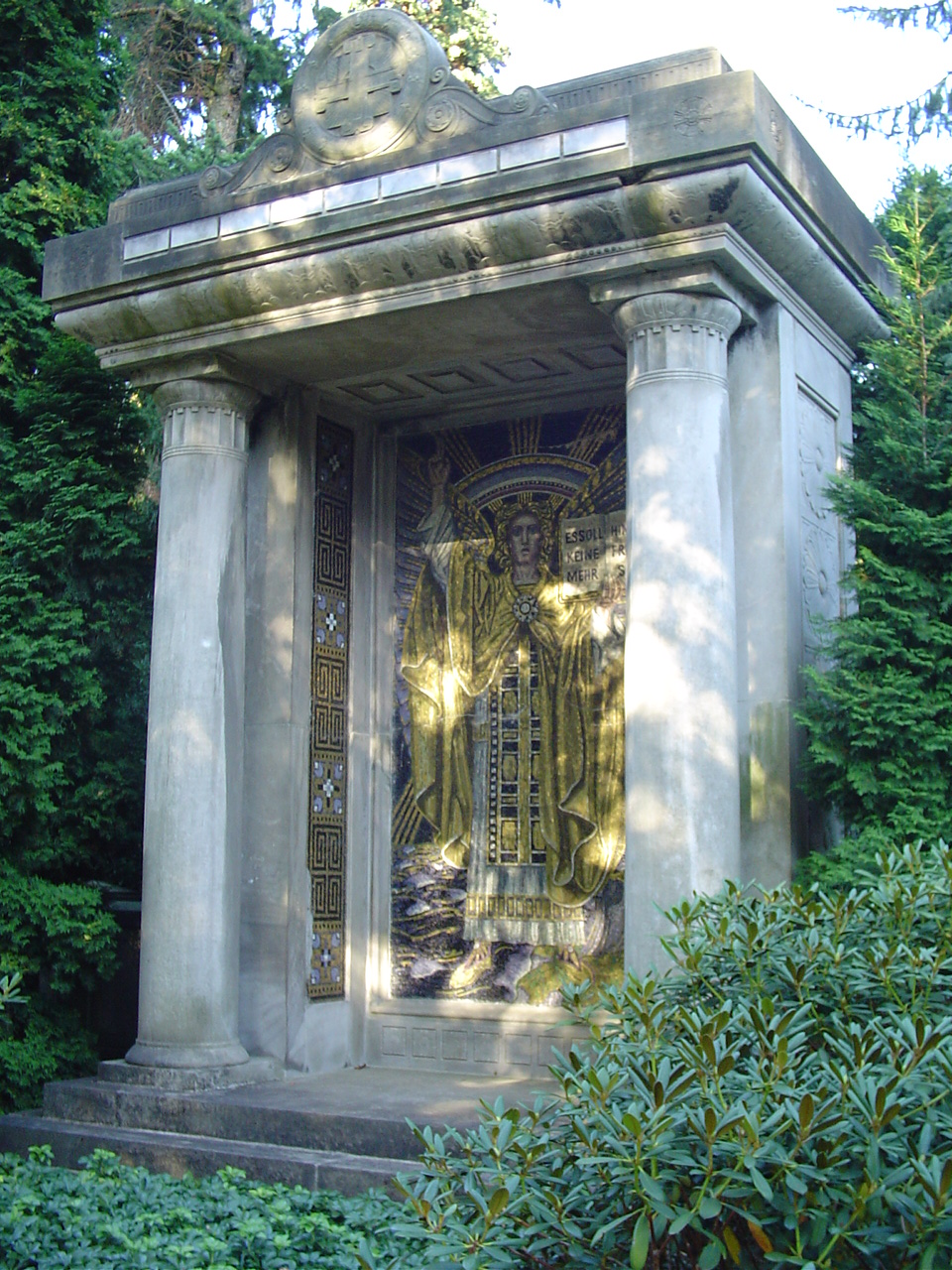 Nordfriedhof cemetery, Düsseldorf, Germany